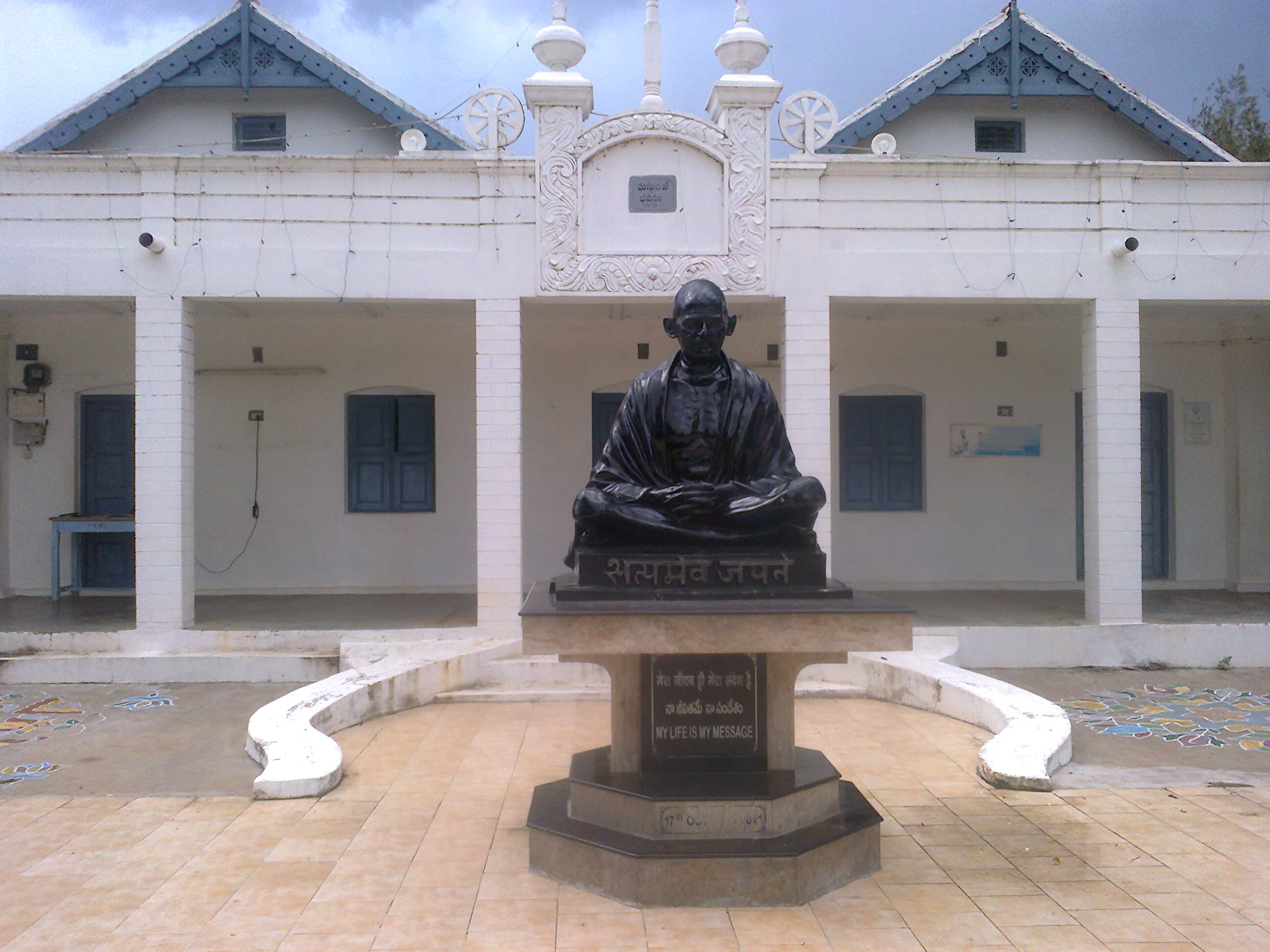 pinakini satygraha Asram started by Mahatma Gandhi in 1921 in the part of Gandhi's philosophy was the principle of 'swadeshi', which, in effect, means local self-sufficiency in independence movement. Gandhi's vision of a free India was not a nation-state but a confederation of self-governing, self-reliant, self-employed people living in village communities, deriving their right livelihood from the products of their homesteads. Maximum economic and political power - including the power to decide what could be imported into or exported from the village - would remain in the hands of the village assemblies. it was in pallipadu village, nellore district, AP.